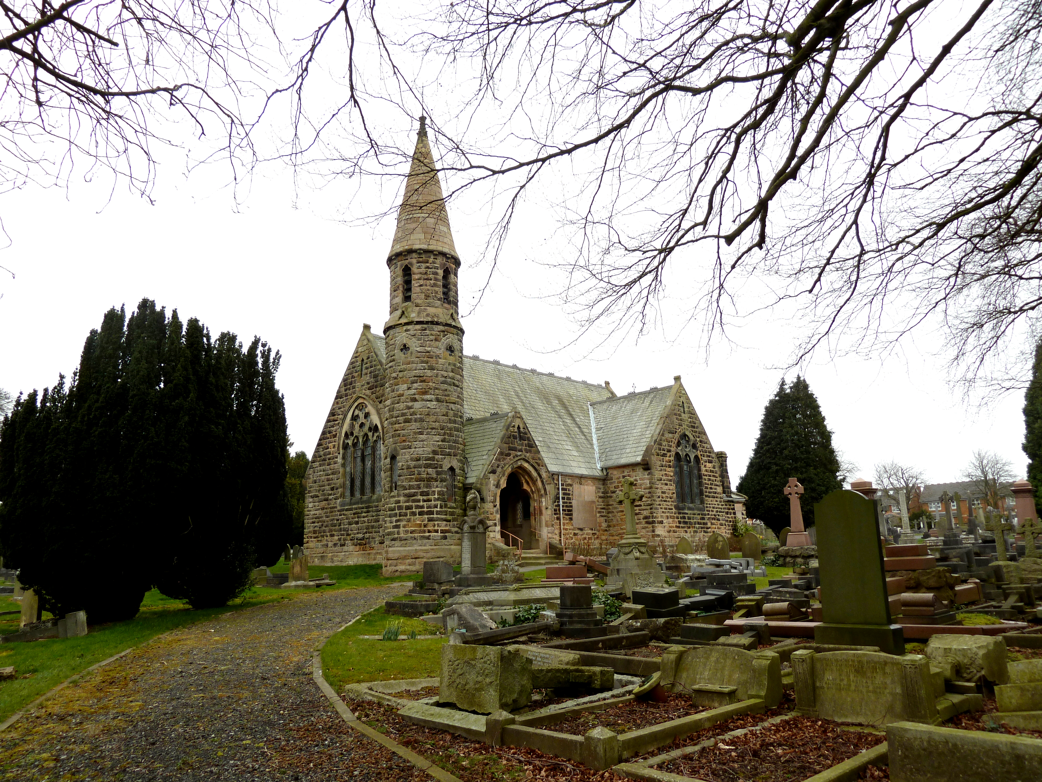 Church of All Saints, Otley Road, Harlow Hill, Harrogate, North Yorkshire, England. It is the cemetery chapel in Harlow Hill Cemetery, and was designed in 1870 by architects Isaac Thomas Shutt and Alfred Hill Thompson.